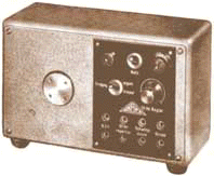 1960s Vibration Calibrator from Metra MMF